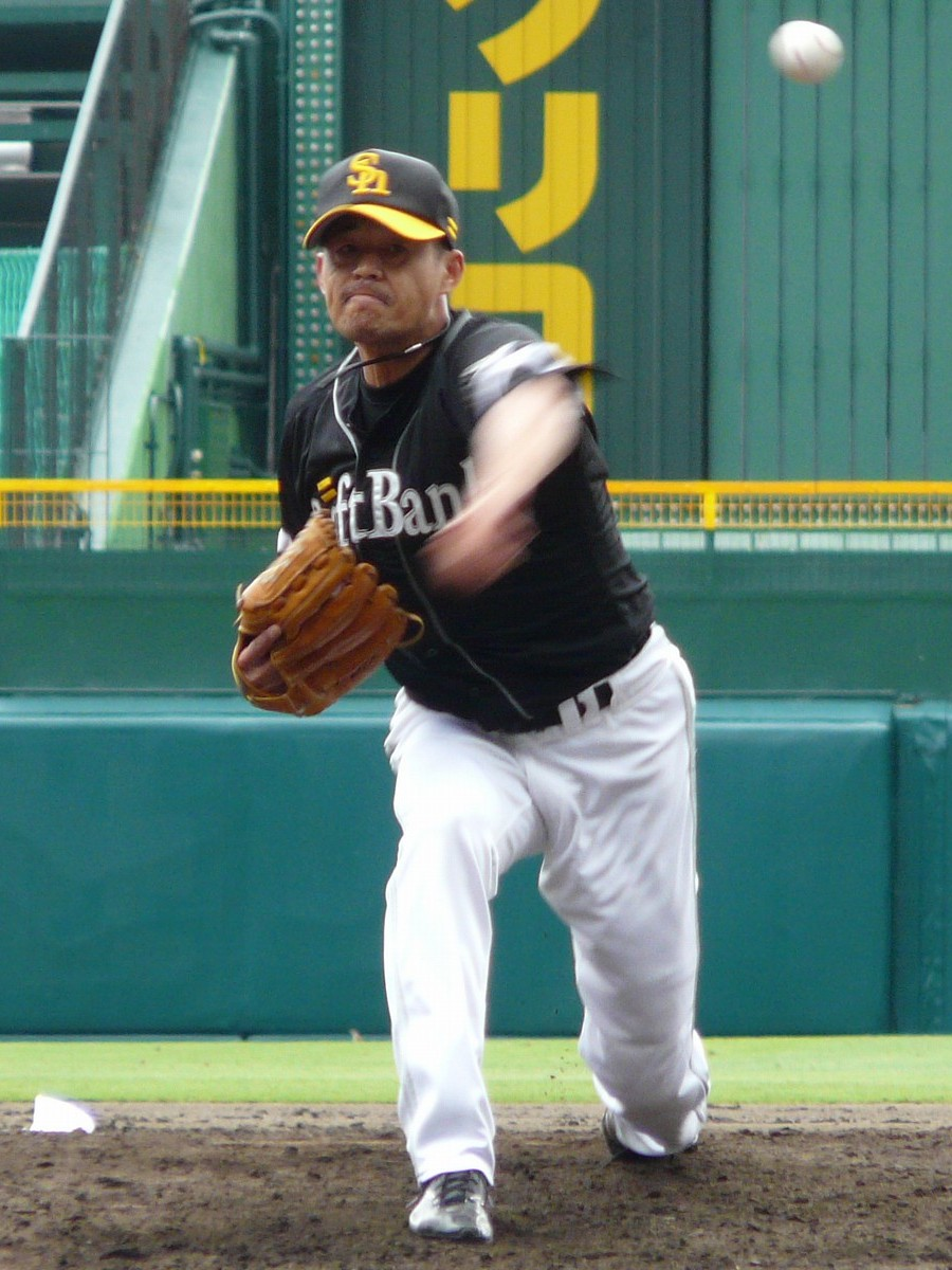 Takayuki Shinohara, pitcher of the Fukuoka SoftBank Hawks, at Hanshin Koshien Stadium.